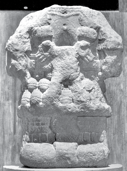 Statue of Yolotlicue at the National Museum of Anthropology